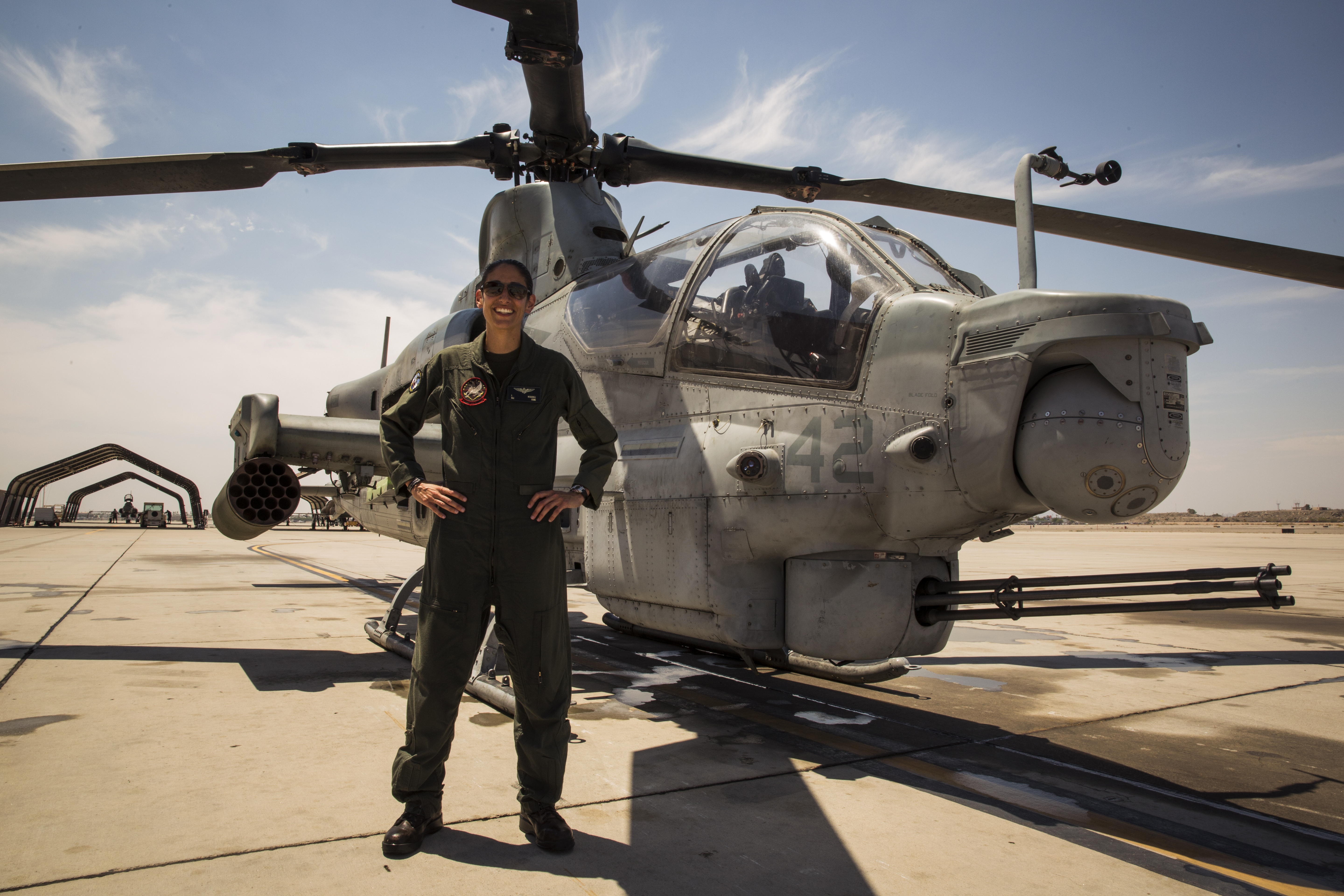 U.S. Marine Corps Maj. Jasmin Moghbeli, a pilot assigned to Marine Test and Evaluation Squadron (VMX) 1, conducts her final flight in an AH-1 "Cobra" at Marine Corps Air Station Yuma, Ariz., June 7, 2017. Maj. Moghbeli will report to the Johnson Space Center in Houston, Texas, later this year to attend the NASA Astronaut Candidate Class of 2017. (U.S. Marine Corps photo taken by Lance Cpl. Christian Cachola)